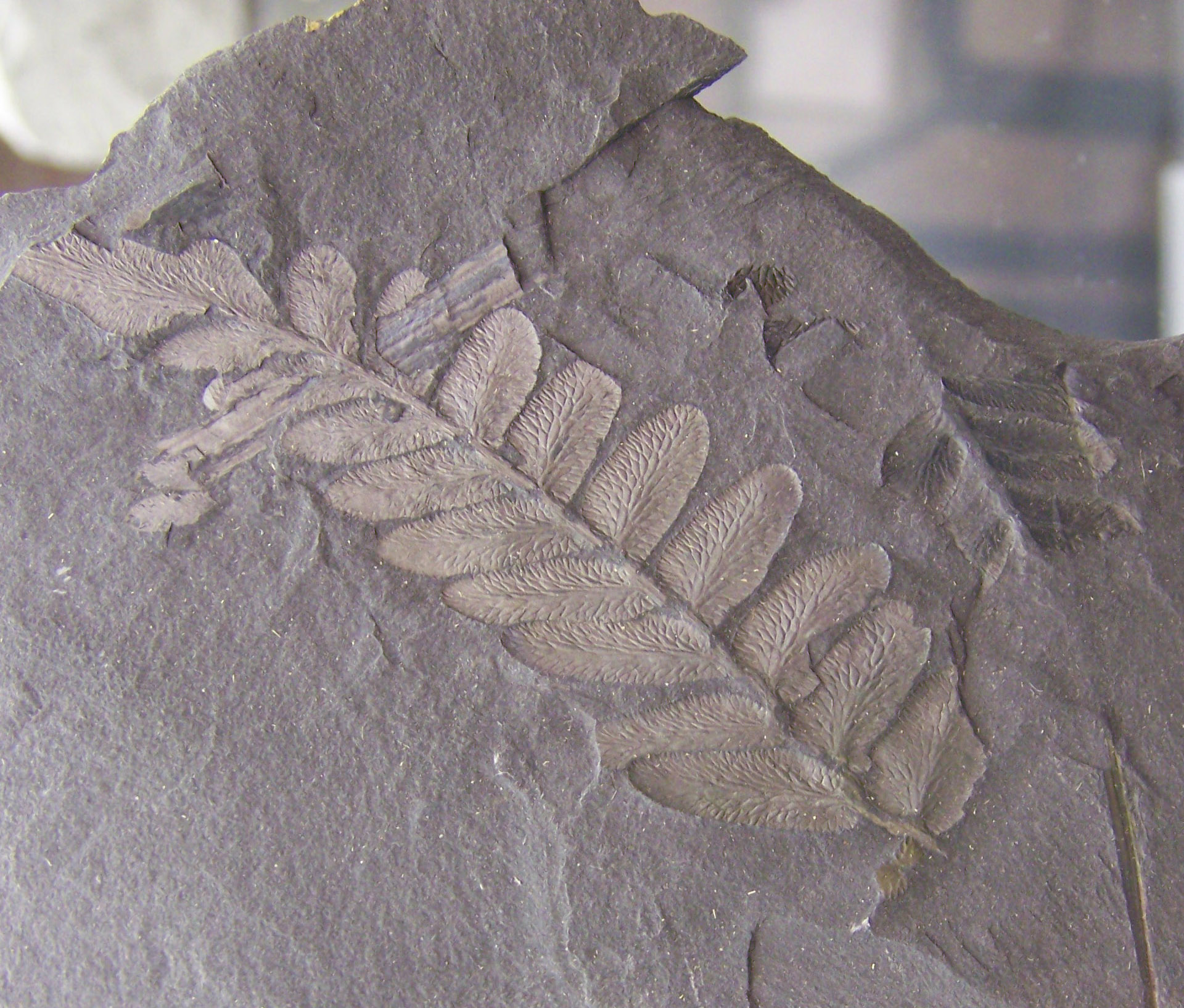 Fossil leave of plant species Reticulopteris muensteri, Upper-Carboniferous. Leave is ca. 9 cm long. Collection of the Universiteit Utrecht.